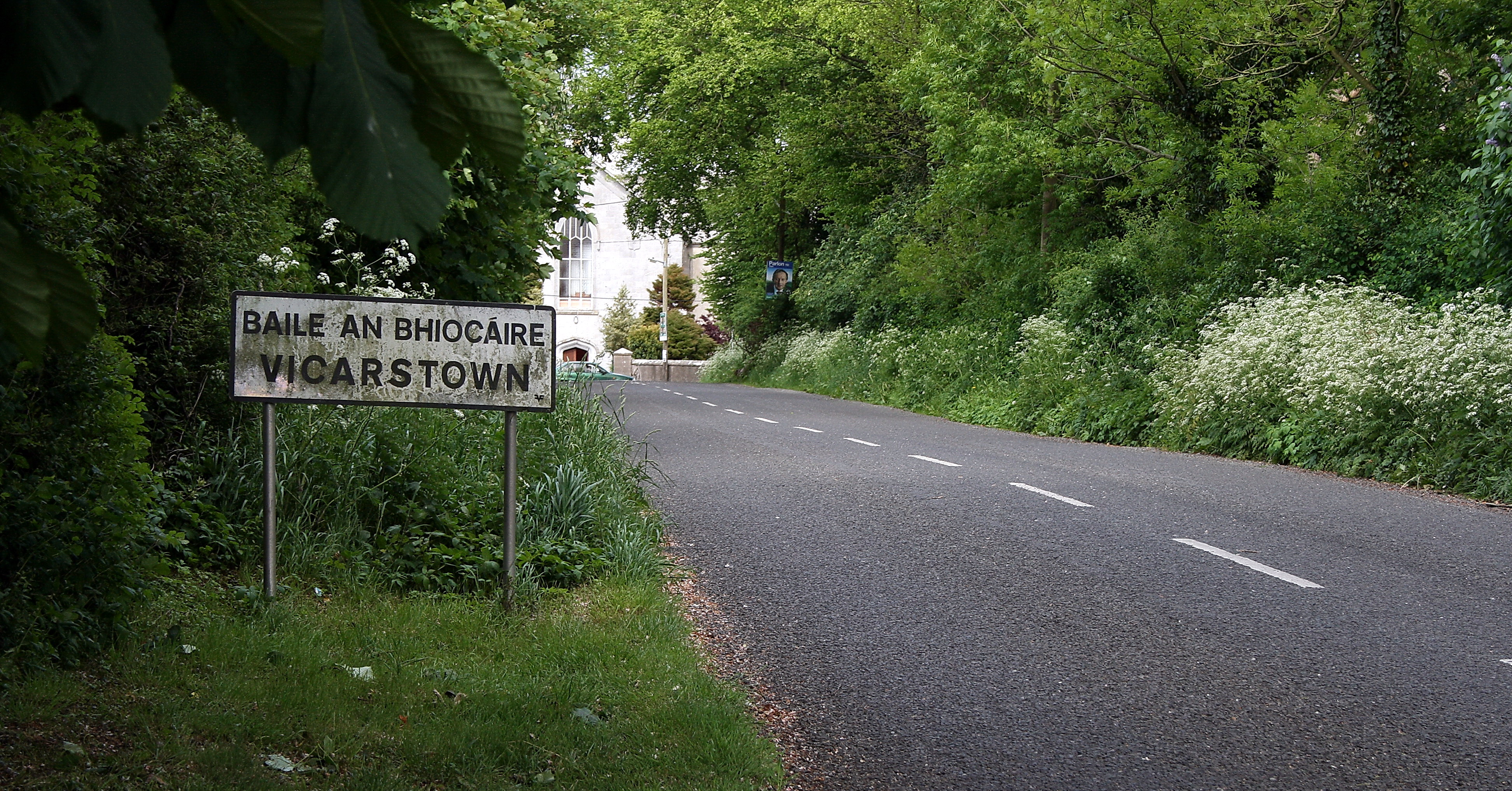 Approaching Vicarstown on the R427 from the west